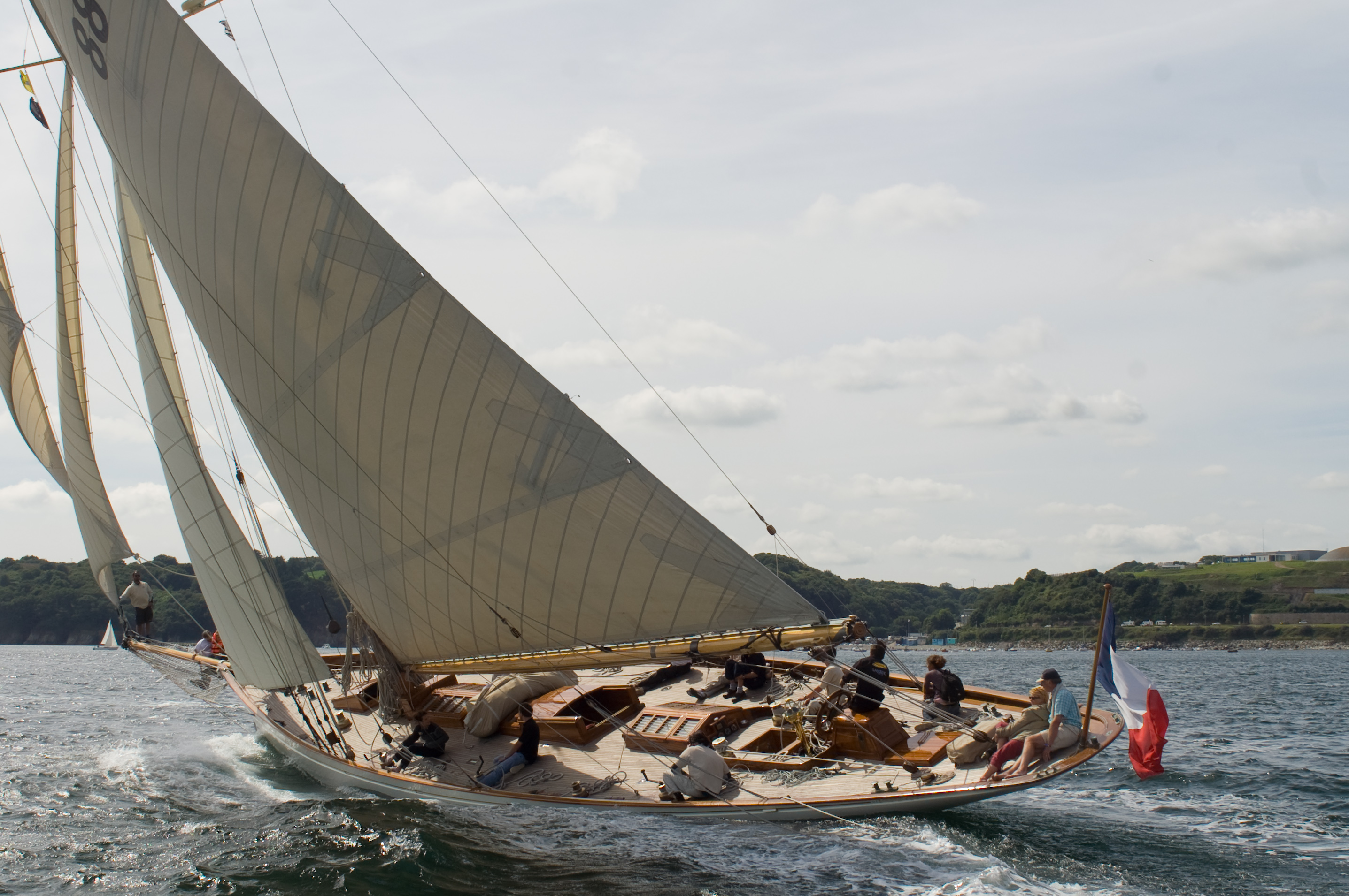 Moonbeam of Fife (Moonbeam III, 1903), Brest, July 2008